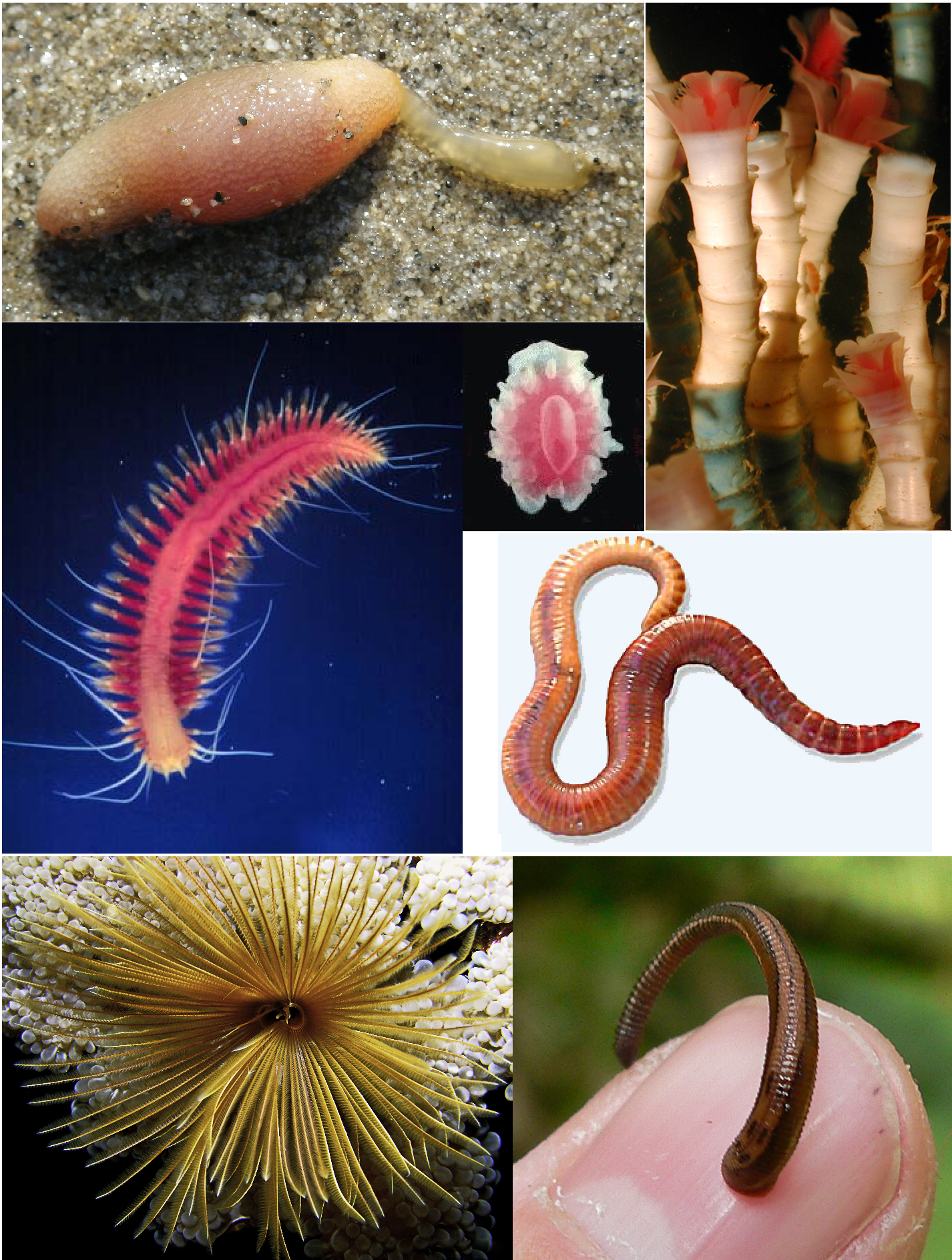 Annelida diversity